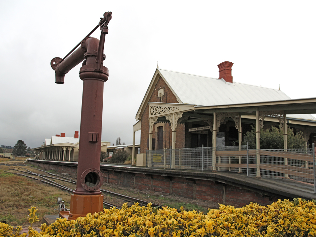 Railway Station, Blayney, NSW Australia. Southern (less busy) platform, with steam locomotive watering point.